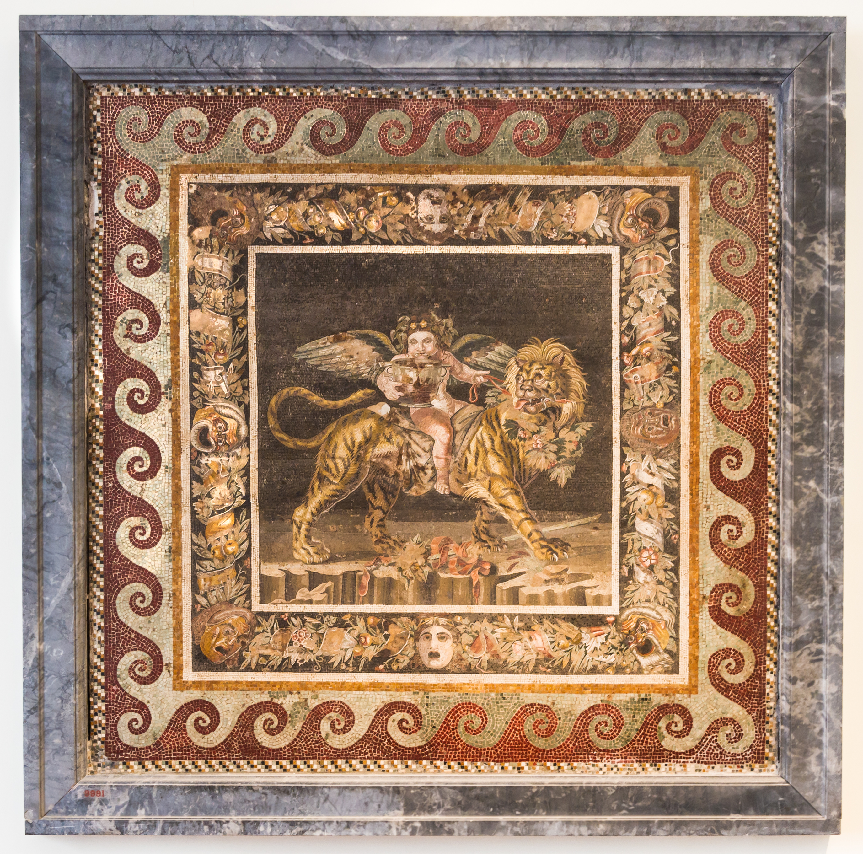 Ancient roman mosaic showing young Dionysos drinking and riding a tiger. From the house of the Faun, Pompeii.